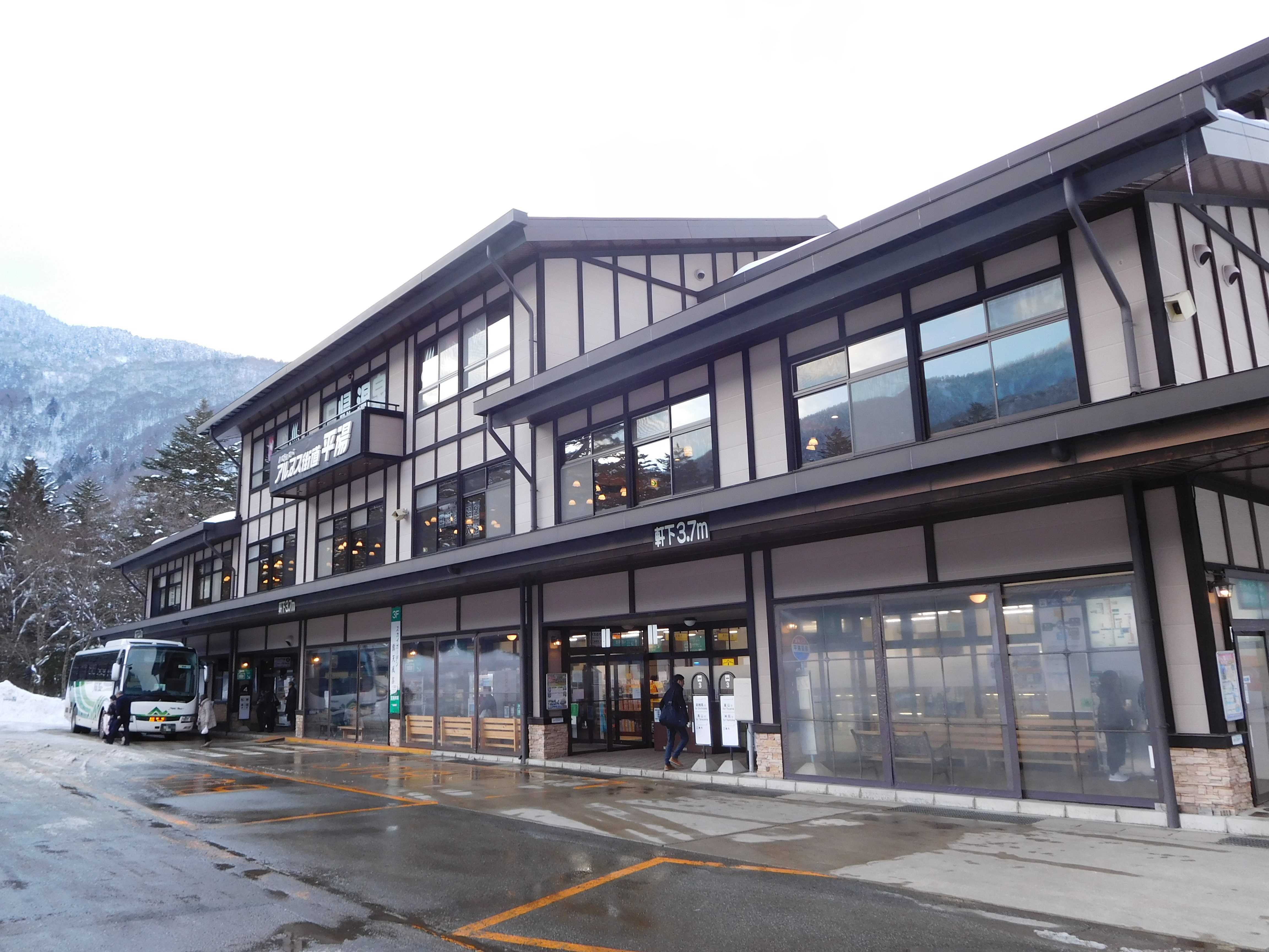 This is the Hirayu Bus Terminal in Takayama, Gifu, Japan.